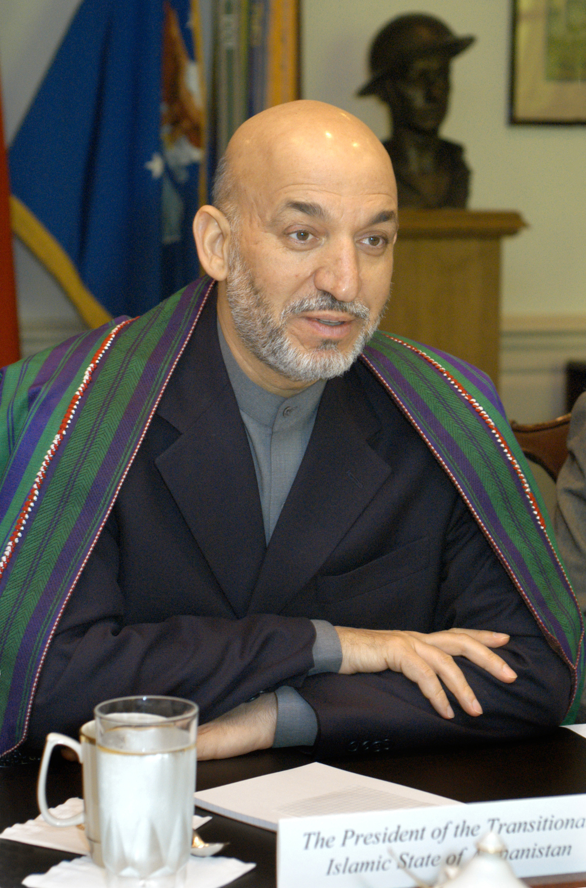 Afghan President Hamid Karzai meets with Secretary of Defense Donald H. Rumsfeld in the Pentagon on June 14, 2004, to discuss security issues relating to his country. DoD photo by R. D. Ward. (Released) 040614-D-9880W-092